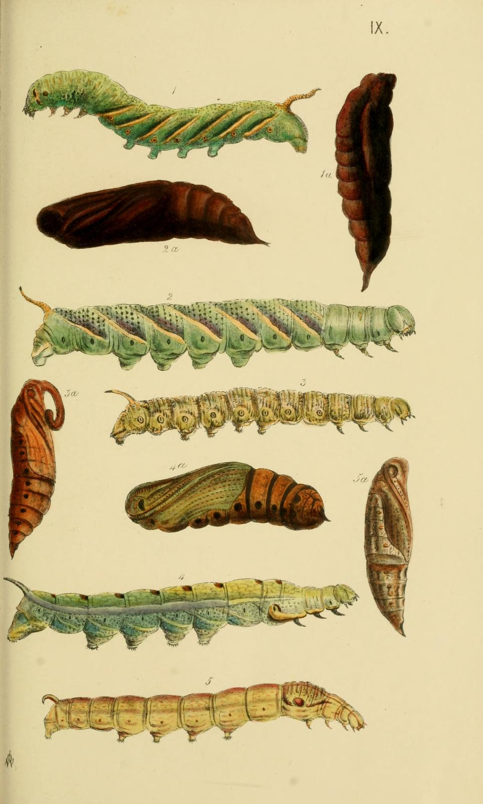 Thomas Horsfield and Frederic Moore. A catalogue of the lepidopterous insects in the Museum of the Hon. East-India Company. Alternative Title:Catalogue of the lepidopterous insects in the Museum of Natural History at the East-India House. Multiple dates 1857 - 1859; 1857-1859.Plate IX text figure 1 Acherontia styx Westwood, 1847 1 larva, 1a pupa figure 2 Acherontia satanas Boisduval, 1836 synonym for Acherontia lachesis(Fabricius, 1798) 2 larva, 2a pupa figure 3 Sphinx convolvuli synonym for Agrius convolvuli (Linnaeus, 1758) 3 larva, 3a pupa figure 4 Philampelus anceus synonym for Acosmeryx anceus (Stoll, [1781]) 4 larva, 4a pupa figure 5 Panacra scapularis synonym for Eupanacra mydon(Walker, 1856) 5 larva, 5a pupa